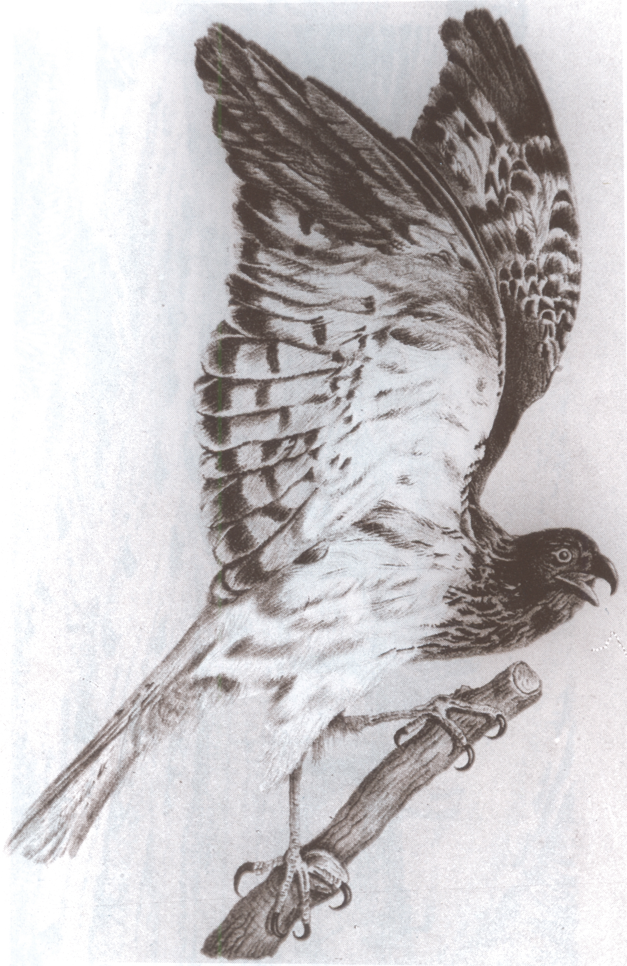 Male Réunion Harrier (Circus maillardi), lithograph by Louis Antoine Roussin